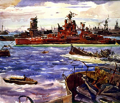 "A panoramic view of the fleet after test ABLE sketched from the bridge of USS Arkansas (BB-33). The ship in the middle is the scorched USS Nevada (BB-36), with Nagato behind and Sakawa sinking in the foreground."